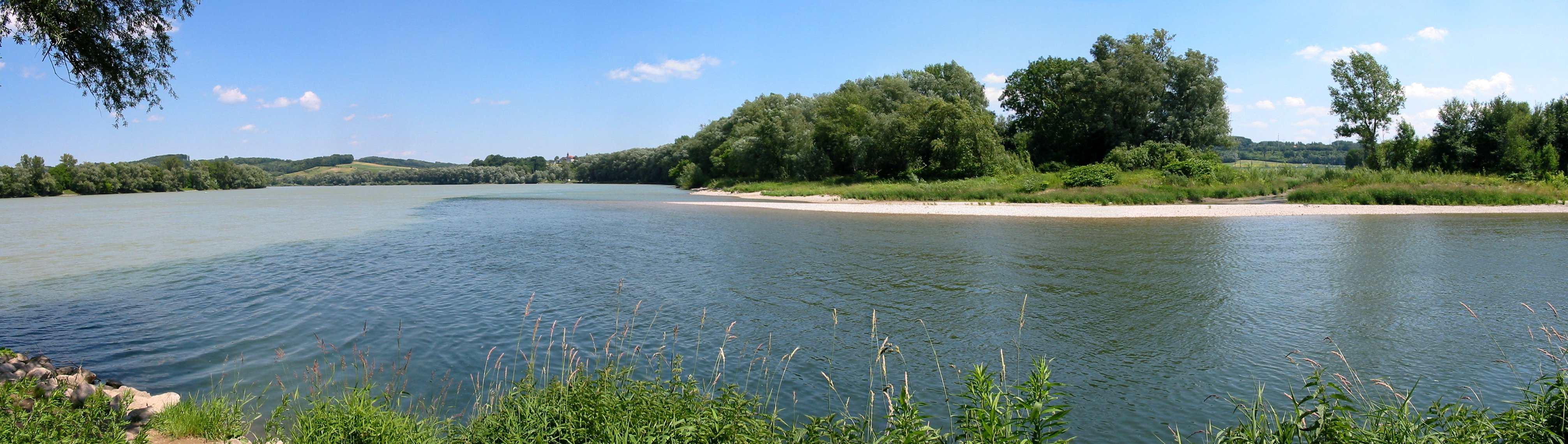 Mouth of the Ybbs in the Danube. Ybbs comes from the right side. Take notice of the different colouring of the Water.